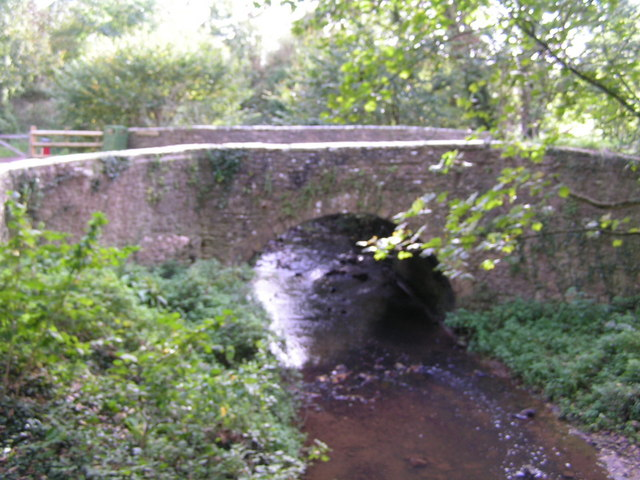 Bridge over the Corfe river